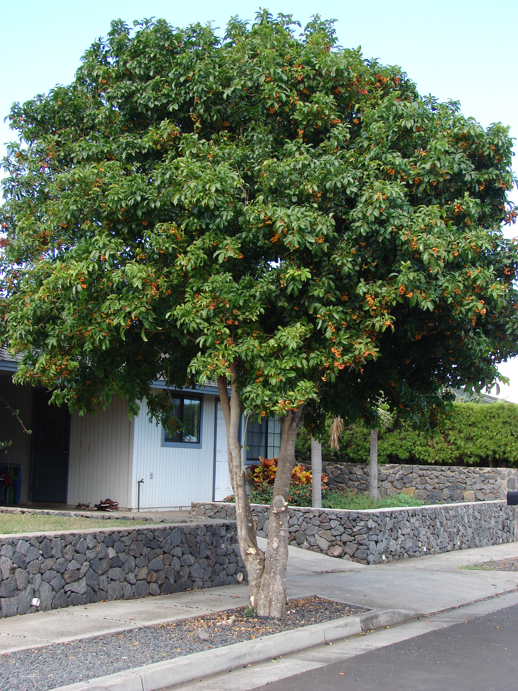 Harpullia pendula (habit). Location: Maui, Pukalani